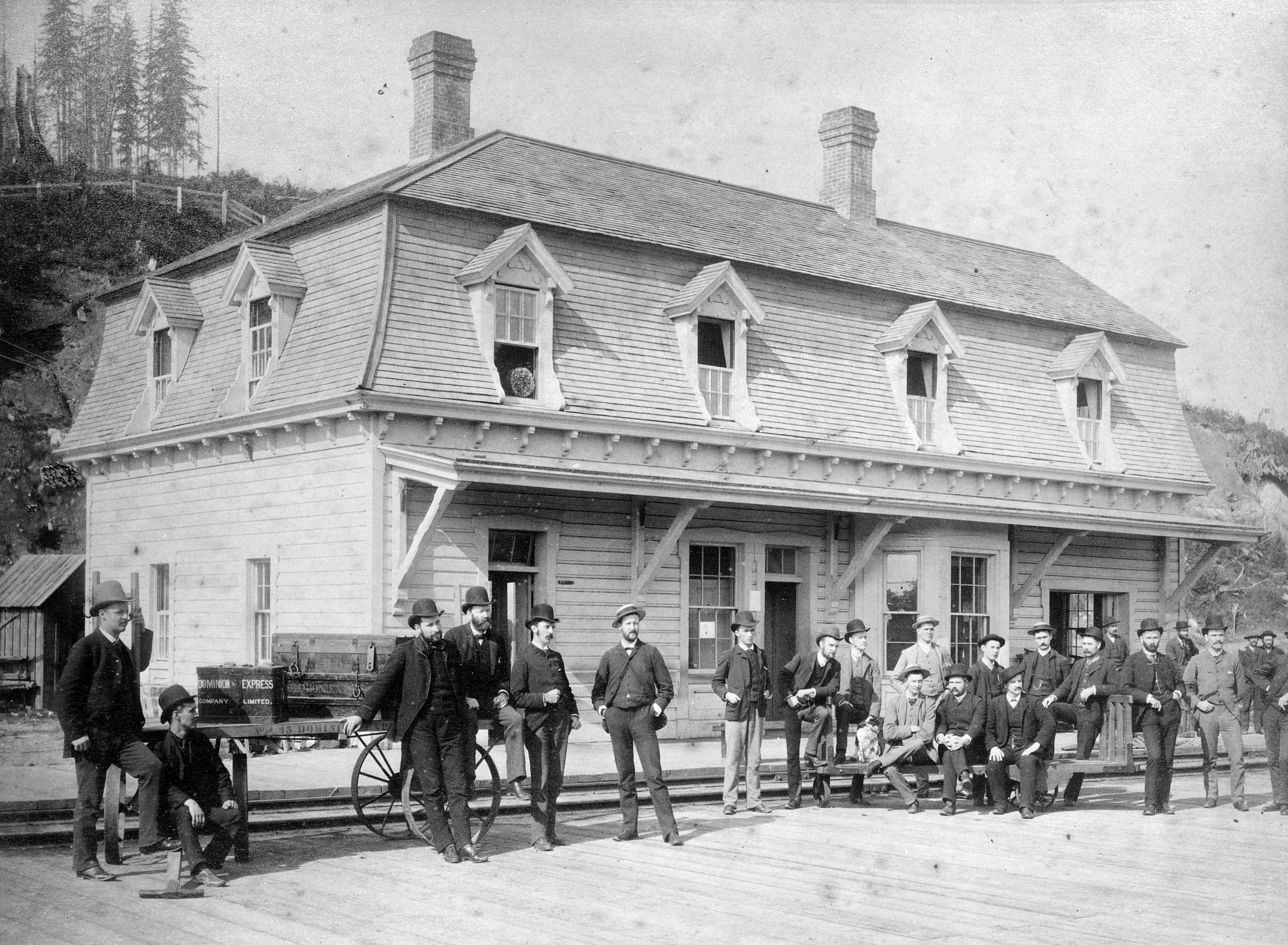 The first C.P.R. Station in Port Moody. Photograph shows Mr. Ford, J. Bass, J.P. Phelan, Mr. Petridge, G. Storey, Mr. Preston, J.J. Mackin, Stanley Henderson, Bob Benedict, Evelyn Smith, James S. Fagan, Mr. Heward, George Morrow, William Downie, Fred Sinclair, A.J. Dana, Graham Boston, Luke Moore, J.J. Mulhall and others